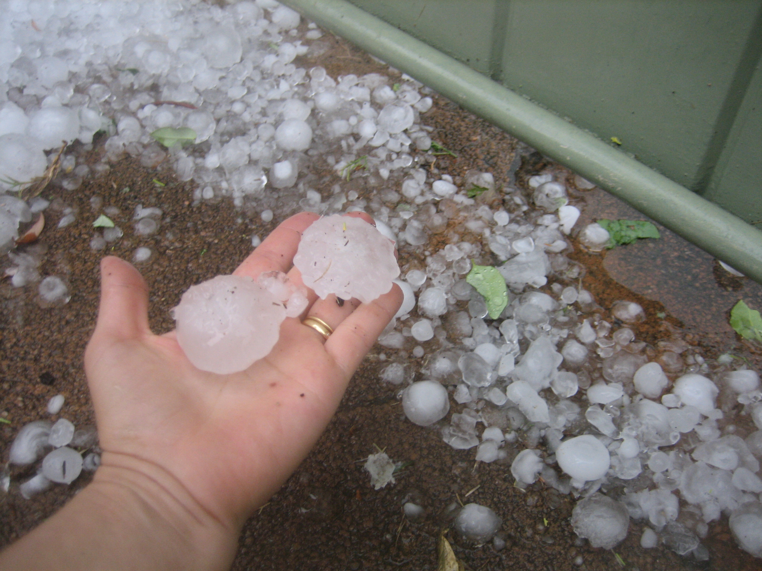 Very big hail damaged lot of property in Perth